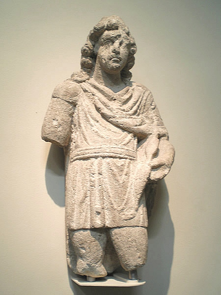 Ancient Roman sculpture, found in London, now at the British Museum.